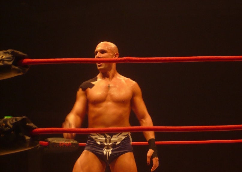 TNA wrestling Superstar, Christopher Daniels.